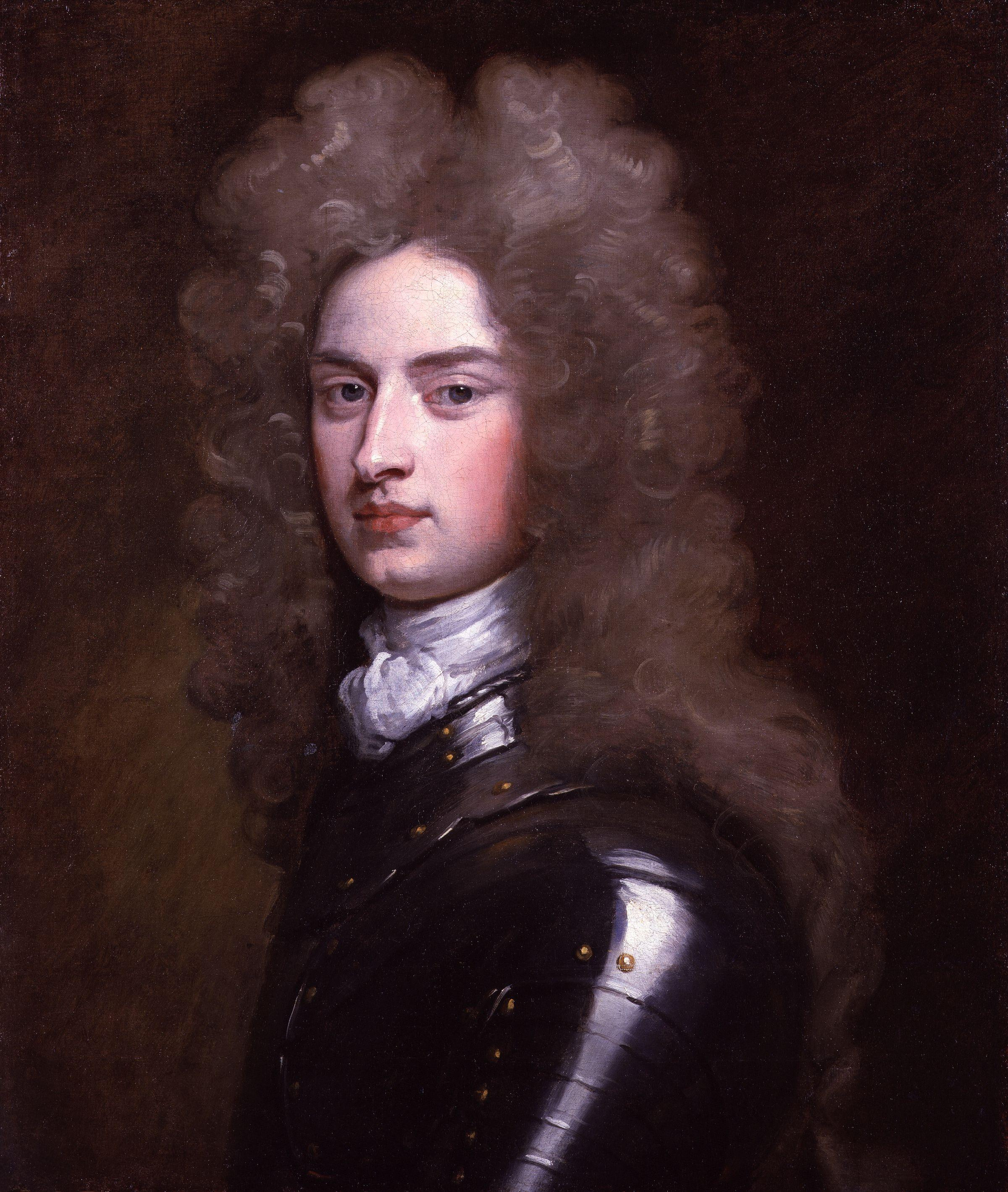 All images in this batch have been confirmed as author died before 1939 according to the official death date listed by the NPG.